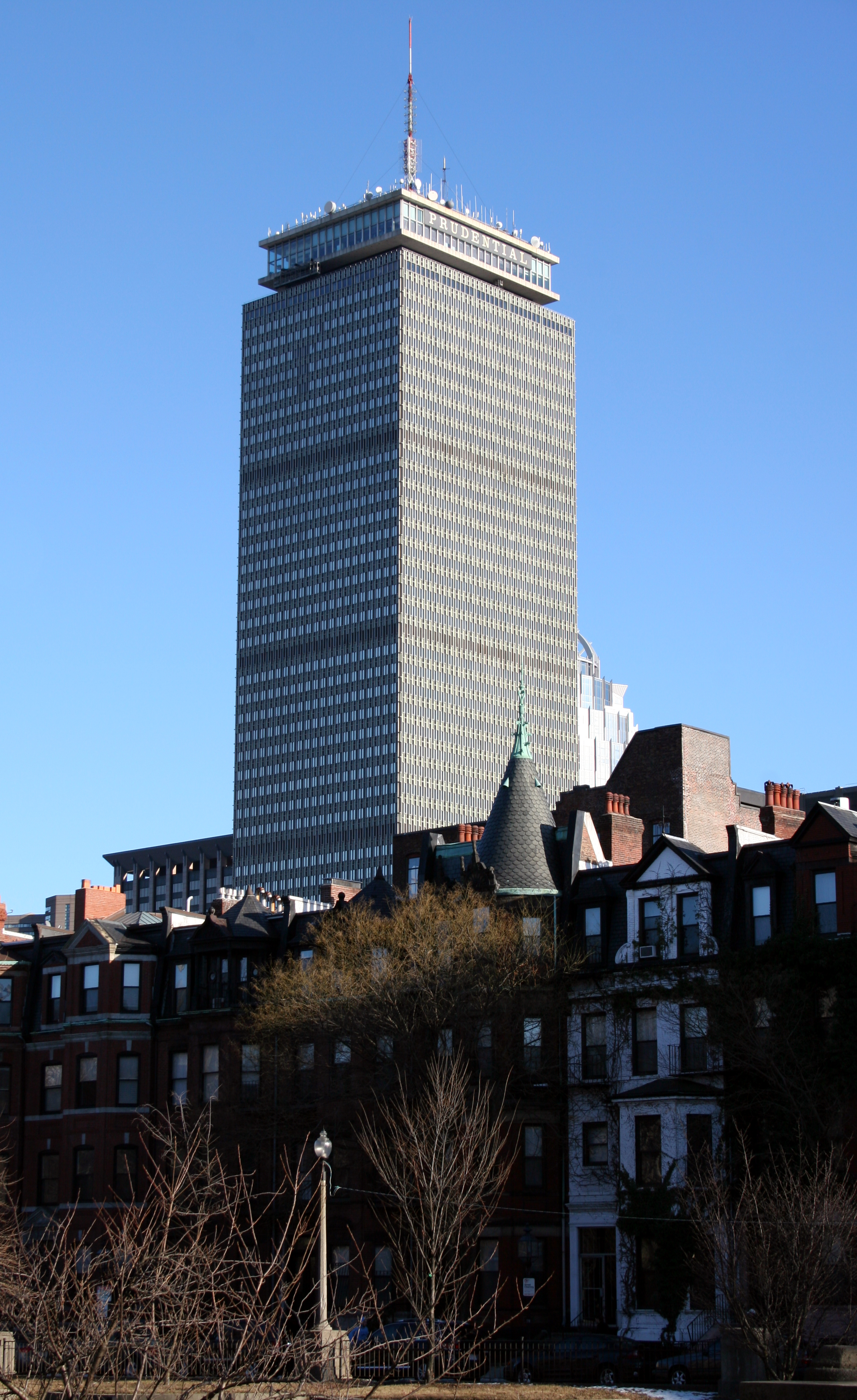 A view of the Prudential Tower from the Back Bay near the intersection of Commonwealth Ave. and Mass Ave.